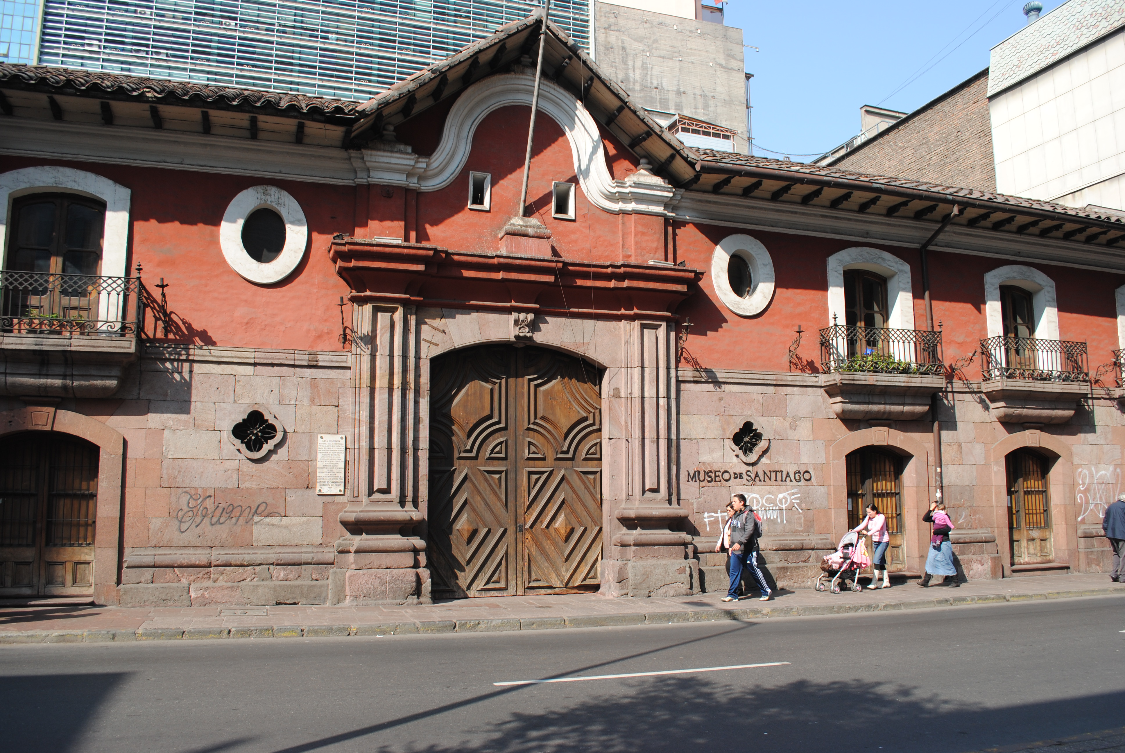 This is a photo of a national monument in Chile: 211